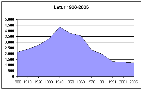 Letur's population, Albacete, Spain, (1900-2005). Own work, given to PD. Source: Instituto Nacional de Estadística.